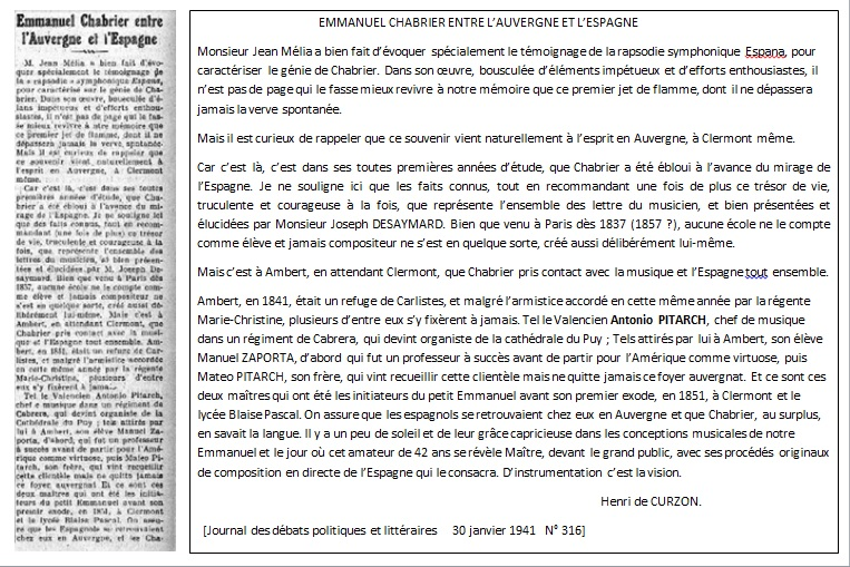 Article de Monsieur CLUZON mentionnant le Maëstro Antonio PITARCH